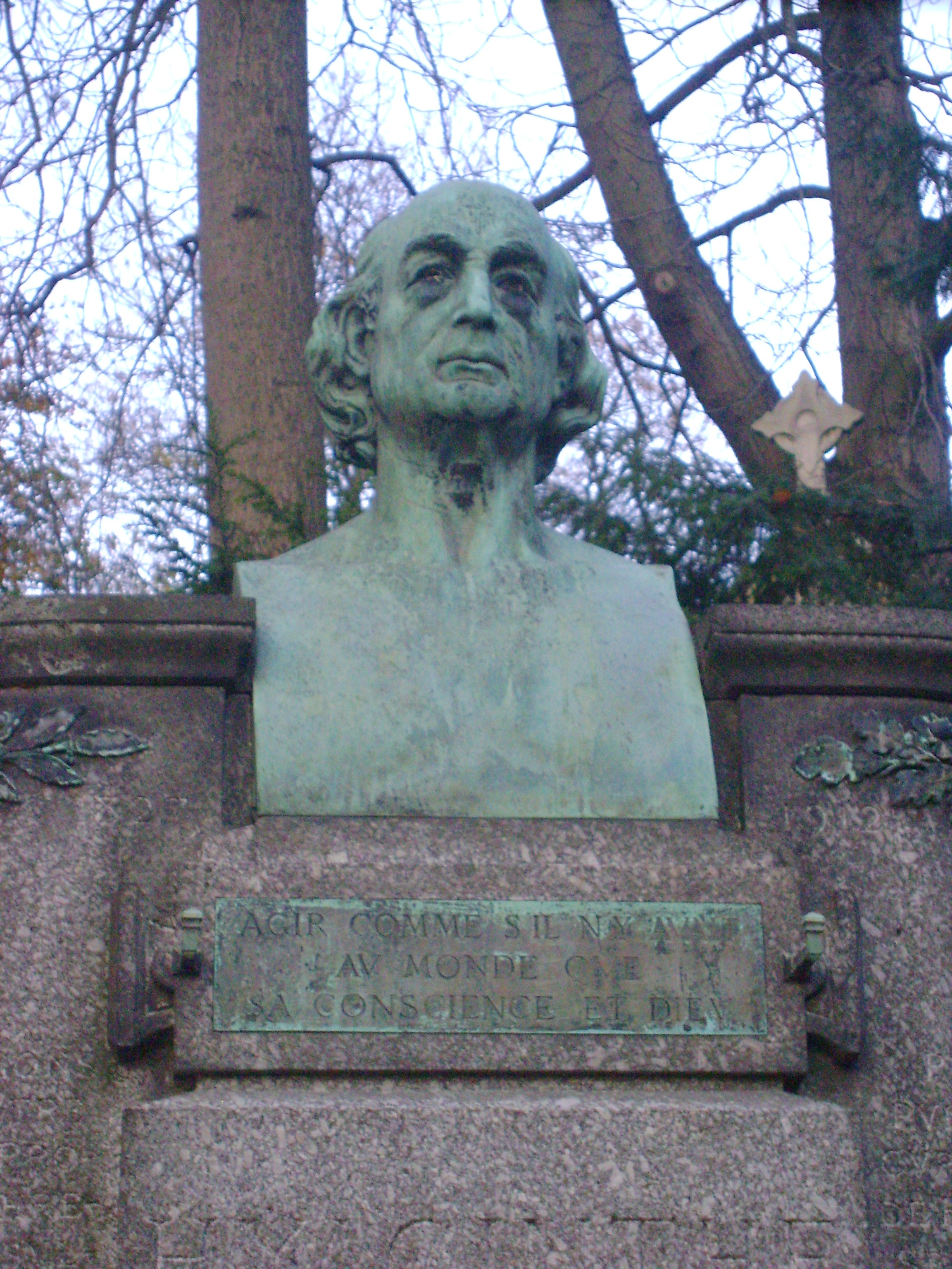 Grave of Hyacinthe Loyson, french religious men (1827-1912), cemetery Père-Lachaise, Paris (France)